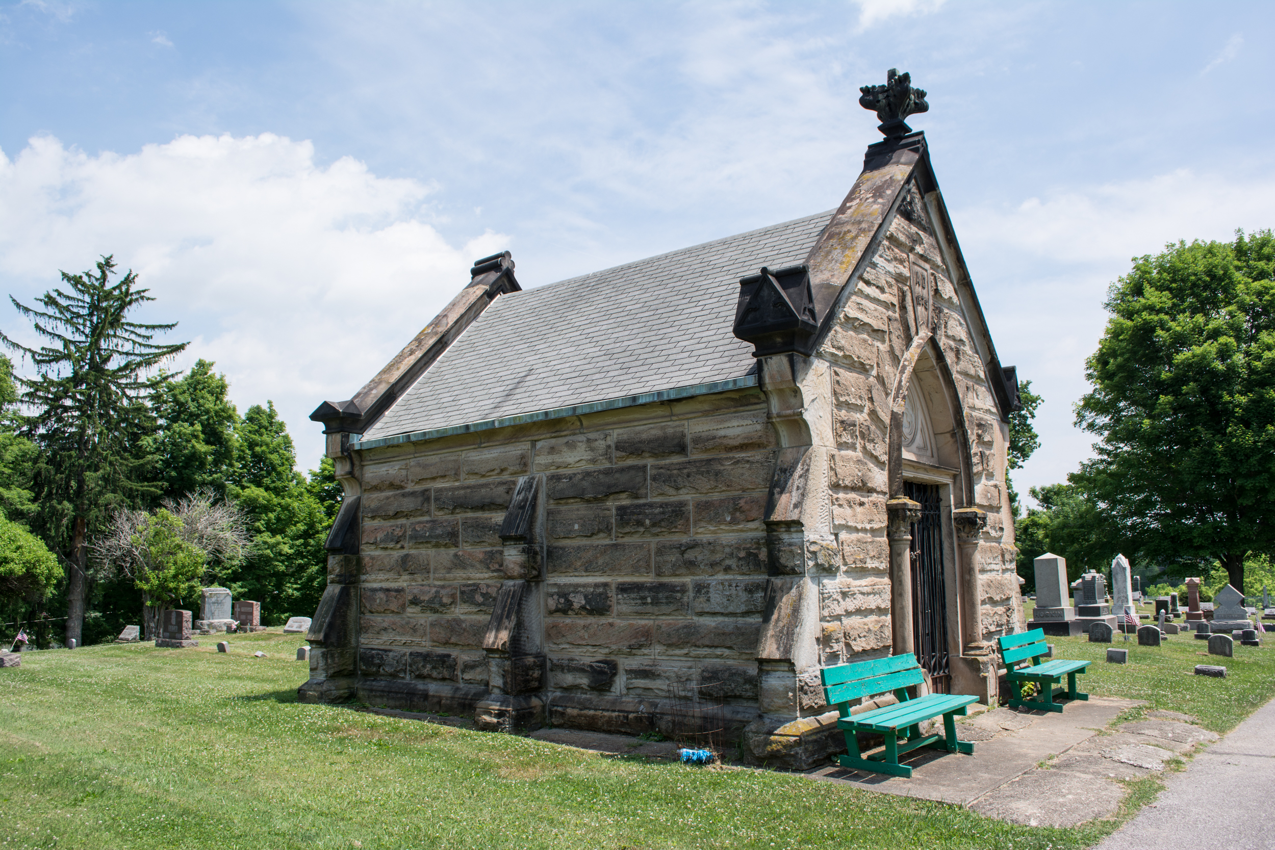 Receiving vault in Park Cemetery in Garrettsville, Ohio, in the United States. The 20-acre cemetery was purchased by the Garrettsville Town Council from William Manley on September 6, 1876. The receiving vault was built in 1879.